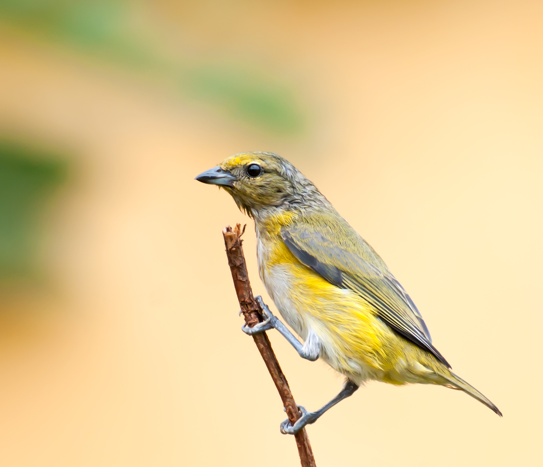 A female Purple-throated Euphonia in Piraju, São Paulo, Brazil.